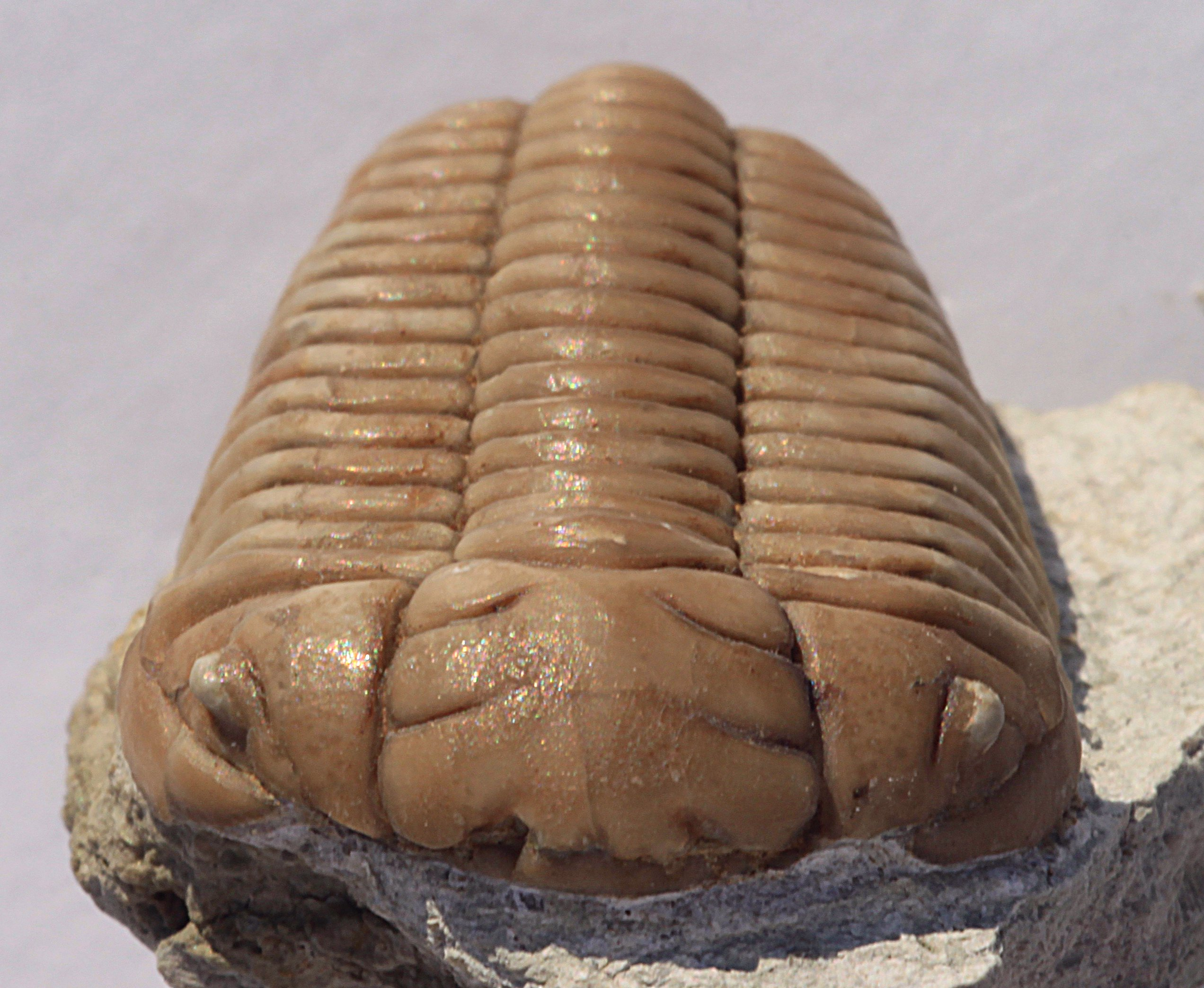 A Pliomera fischeri trilobite, Order Phacopida, Family Pliomeridae, 39mm along the axis, frontal view, collected in the Putilovo quarry near Petrograd, Russian Republic, from the Lower Ordovician